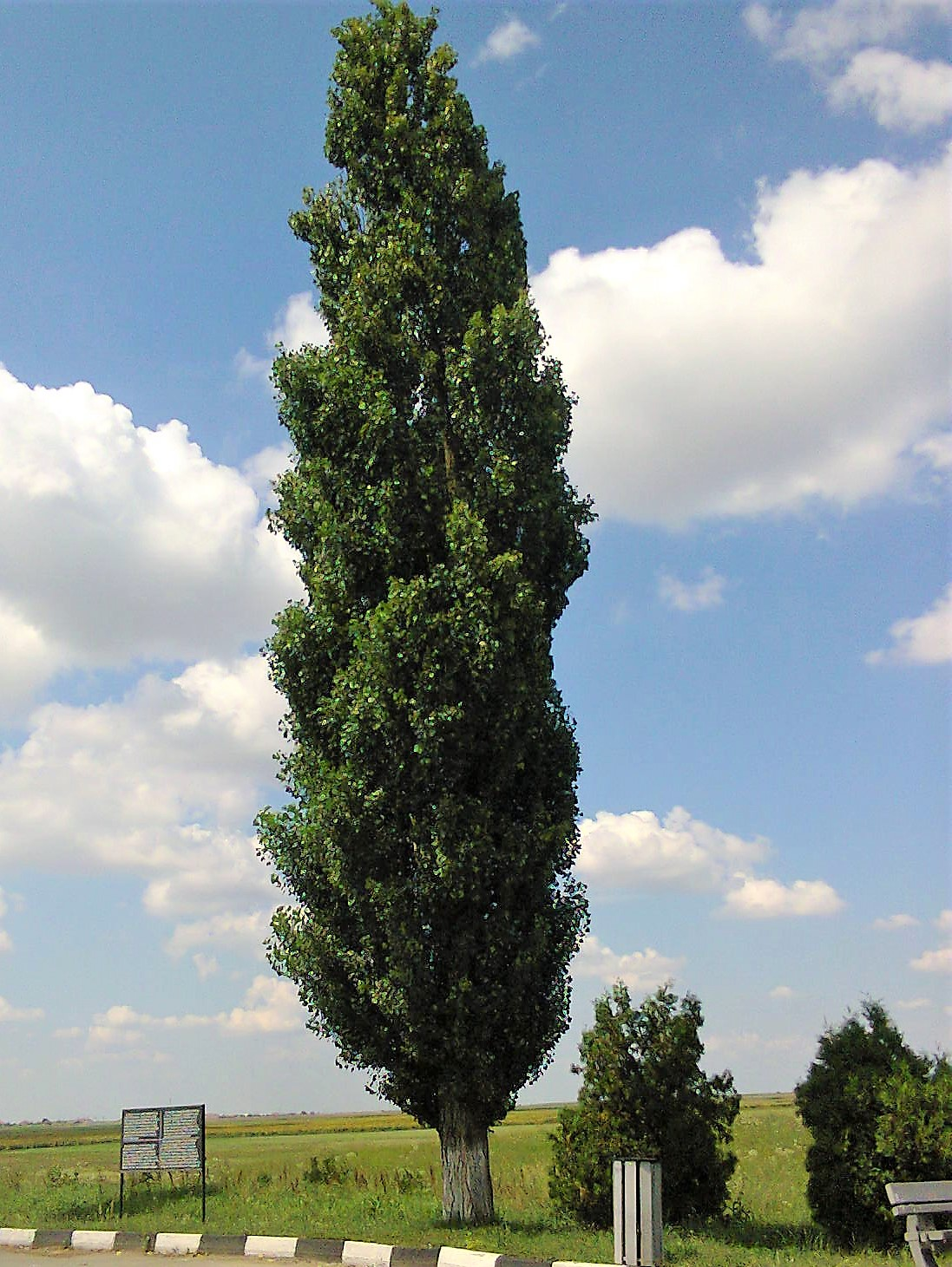 Black Poplar (Populus nigra - Plantierensis Group) in Western-Transylvania.